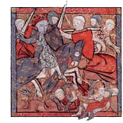 Battle of Bouvines - Capture of Ferrand